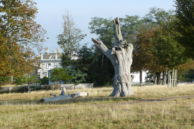 Parkland in Richmond Park A dead tree stands in the foreground, whilst White Lodge can be seen in the background.